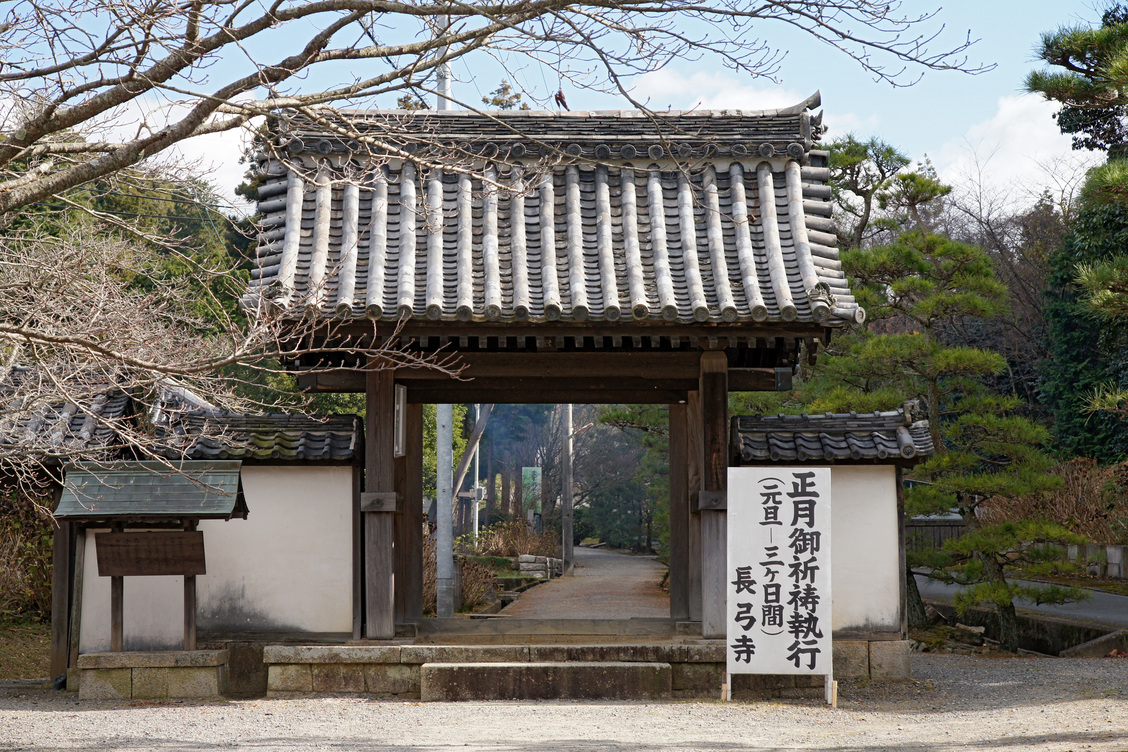 Chōkyū-ji in Ikoma, Nara prefecture, Japan